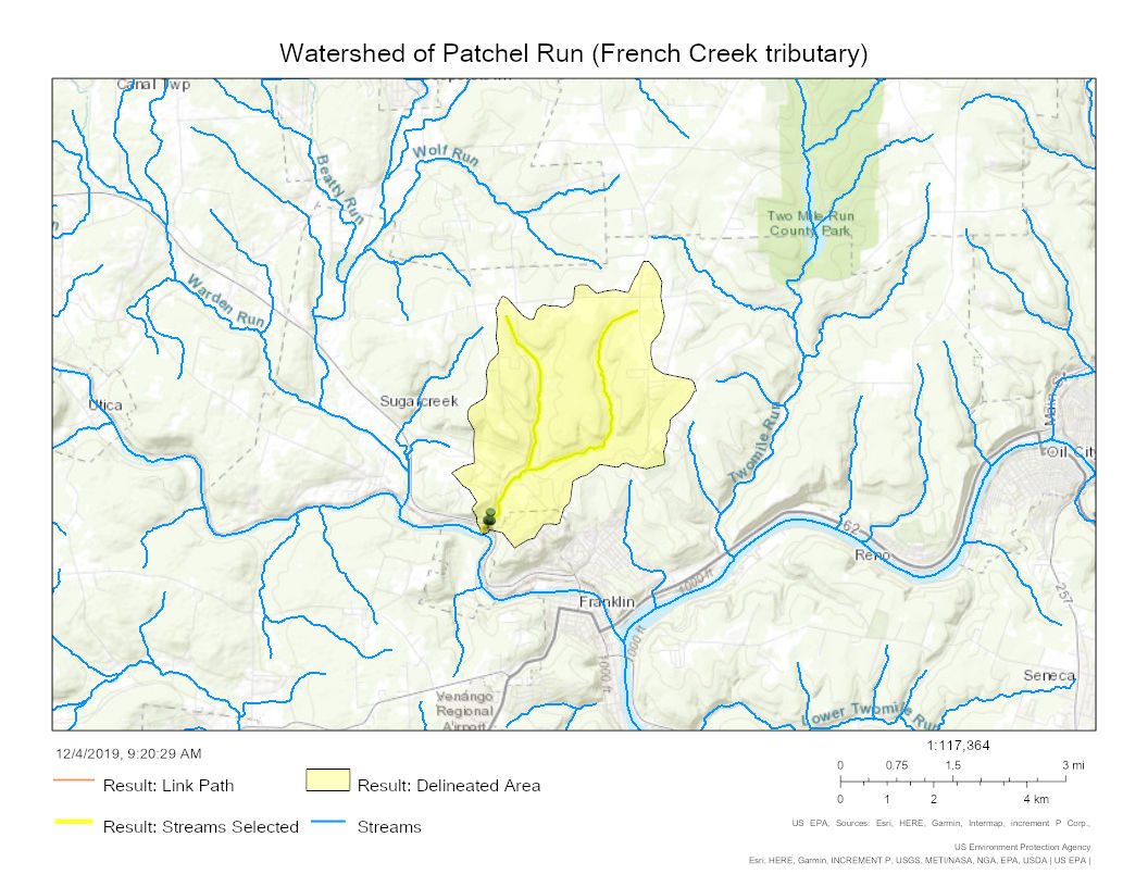 Map of the watershed of Patchel Run (French Creek tributary) in Venango County, Pennsylvania.